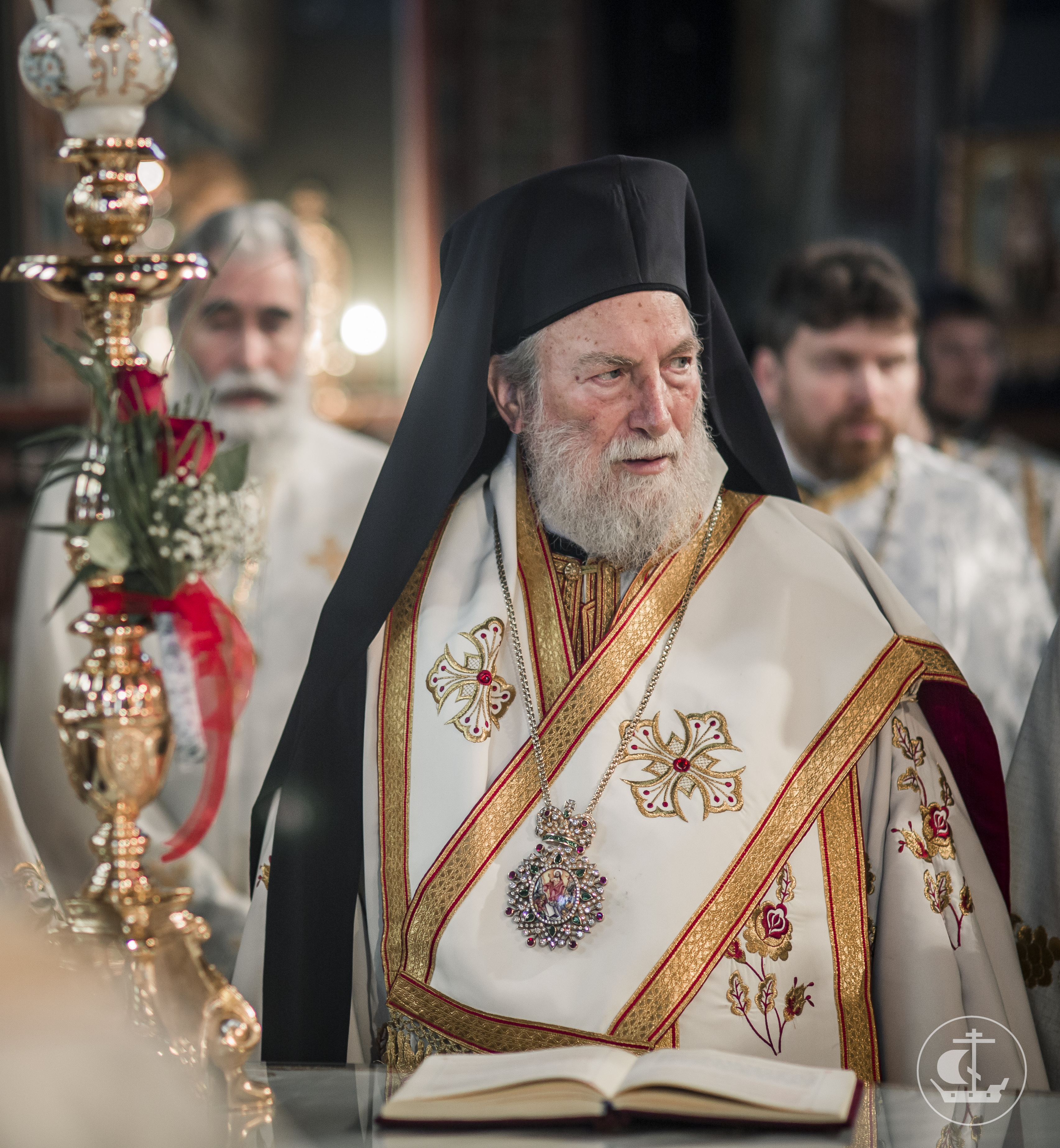 8-9 June 2016, Trip to Greece. Part 3